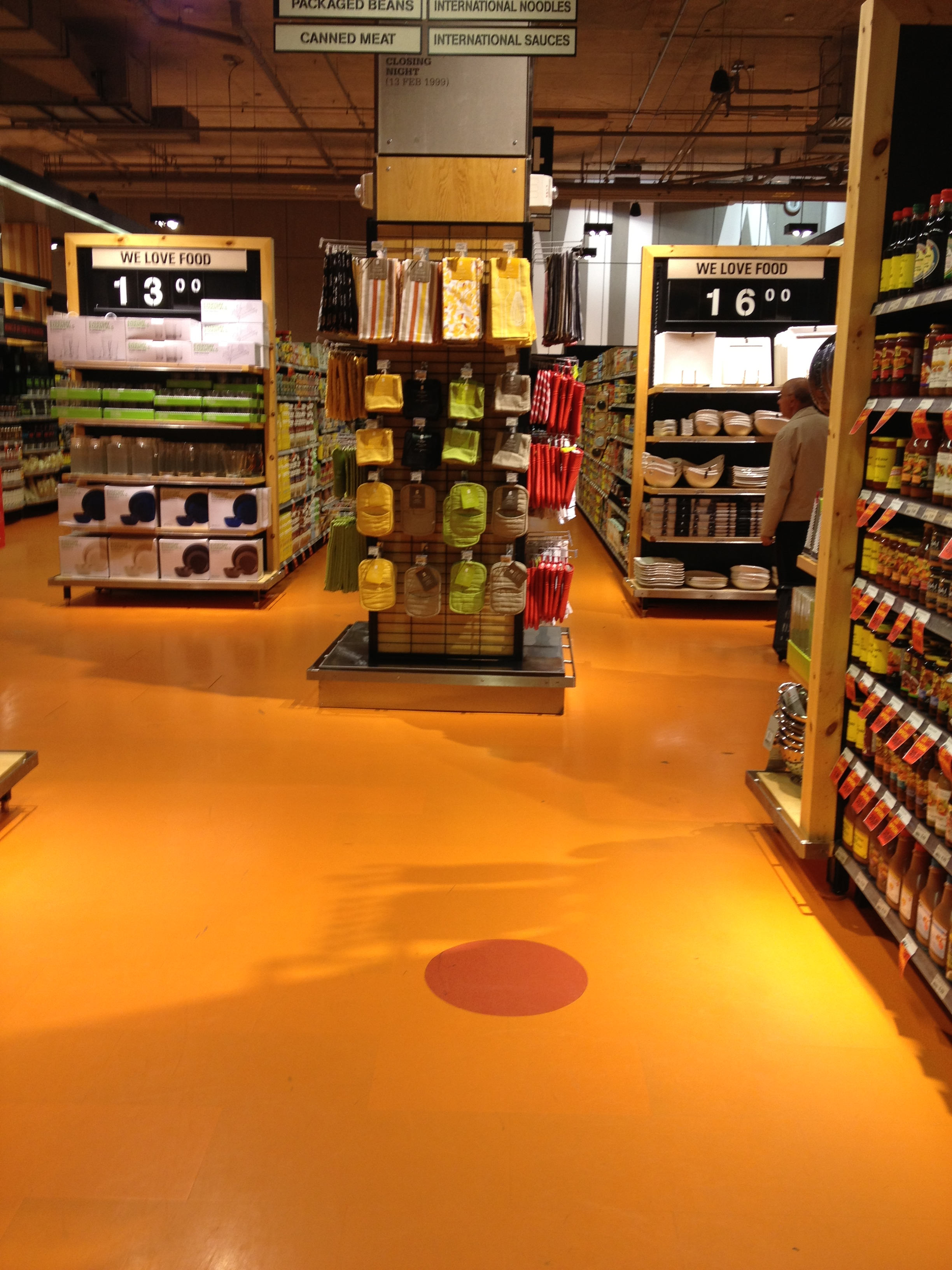 Now at aisle 25 in Loblaw's on Carlton St. Toronto